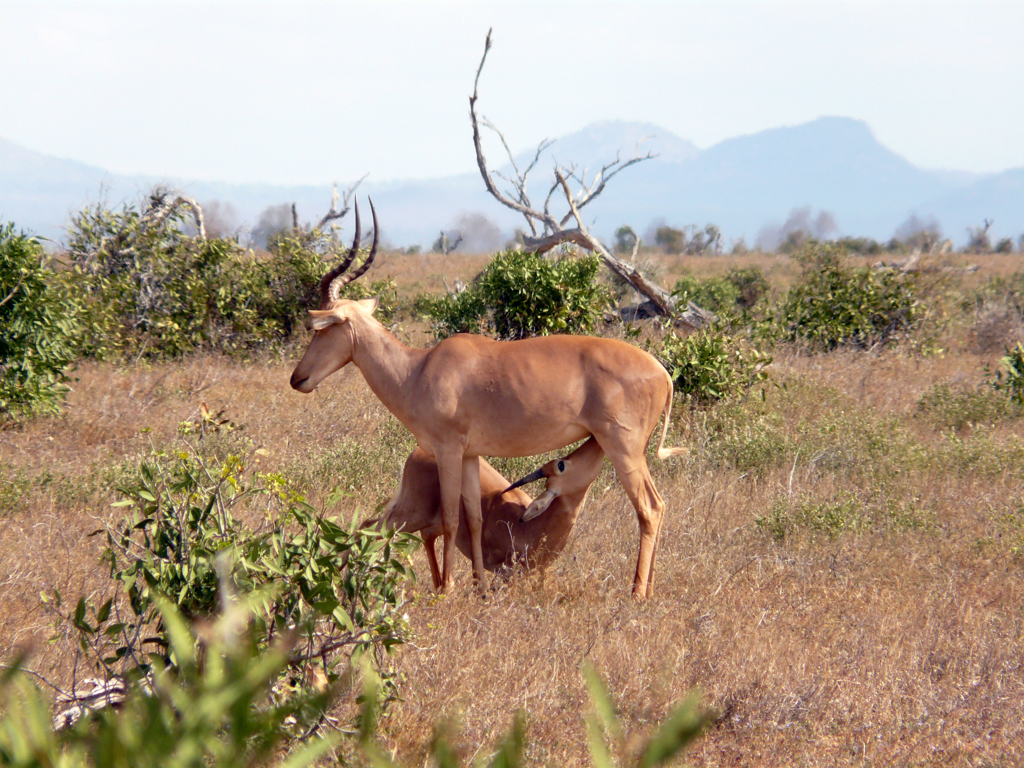 A young hirola calf suckling in Tsavo East National Park, 2011. (Copyright James Probert)